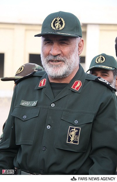 Nur-Ali Shushtari